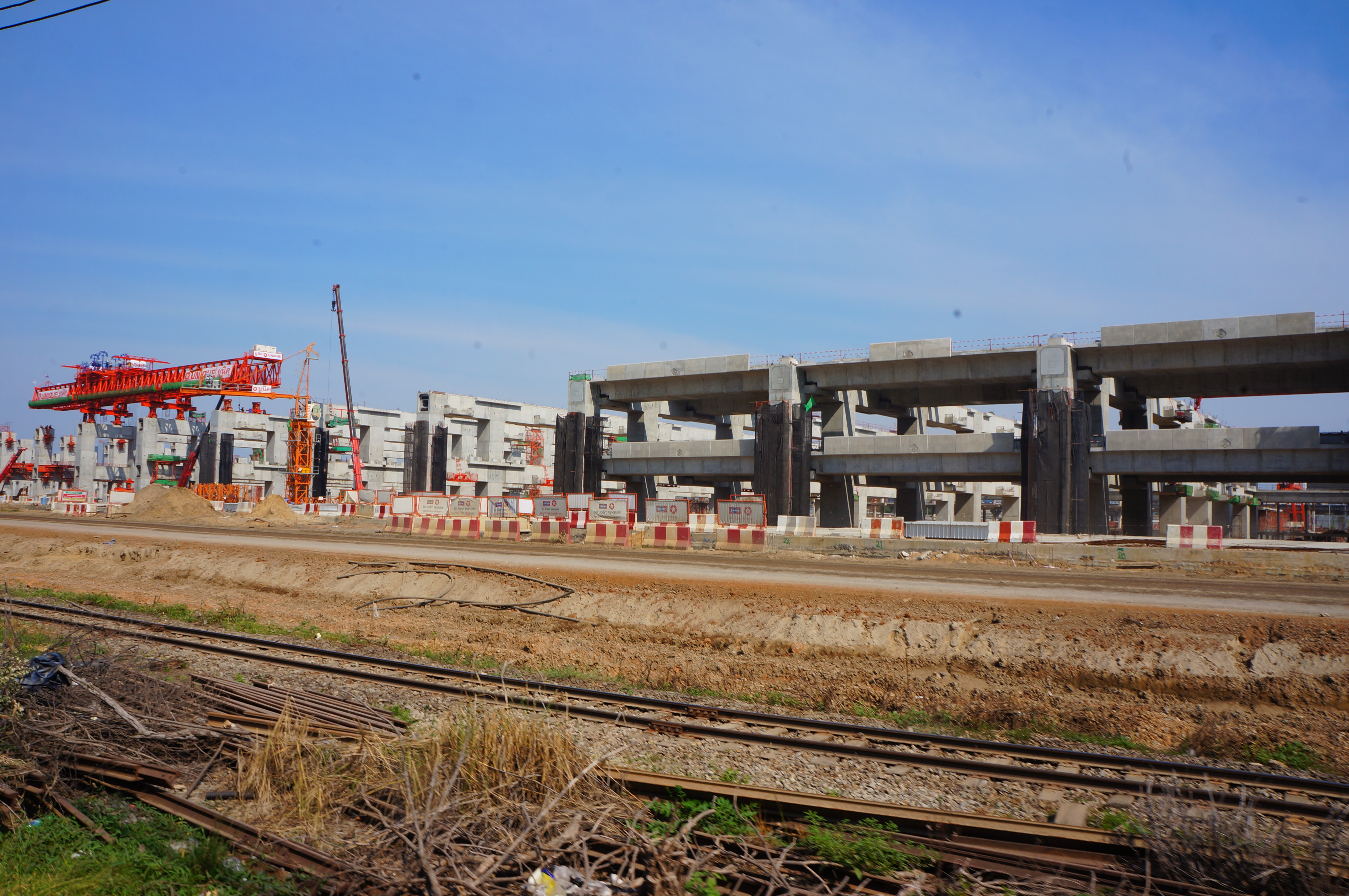 201701 Bang Sue Grand under construction. Hopefully it would be the largest railway hub in Southeastern Asia